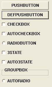 Basic typ of computing buttons on windows xp